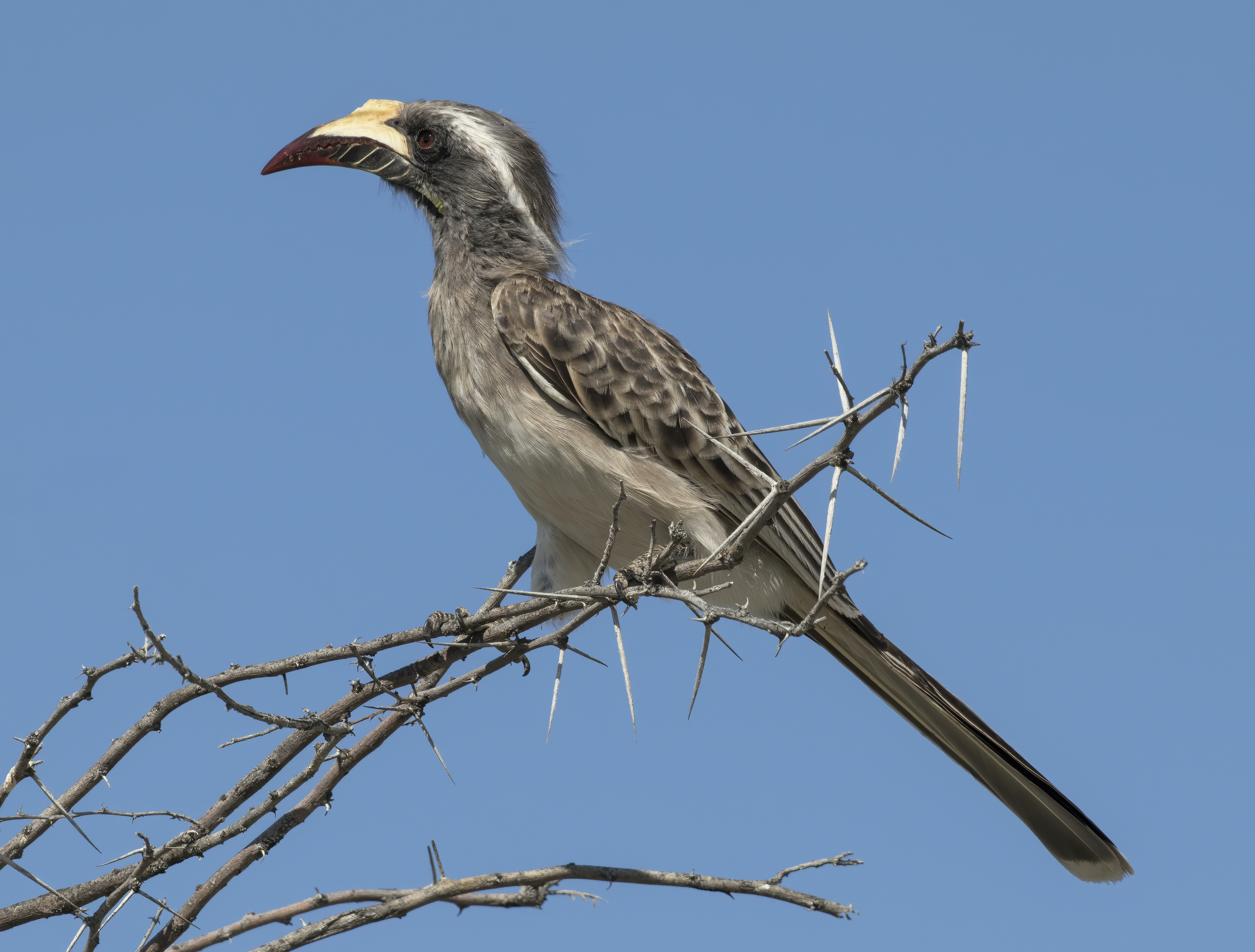 African Grey Hornbill (Tockus nasutus epirhinus) female, Etosha National Park, Namibia